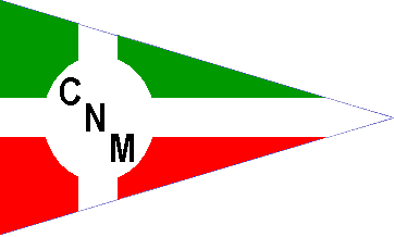 Yacht club flag